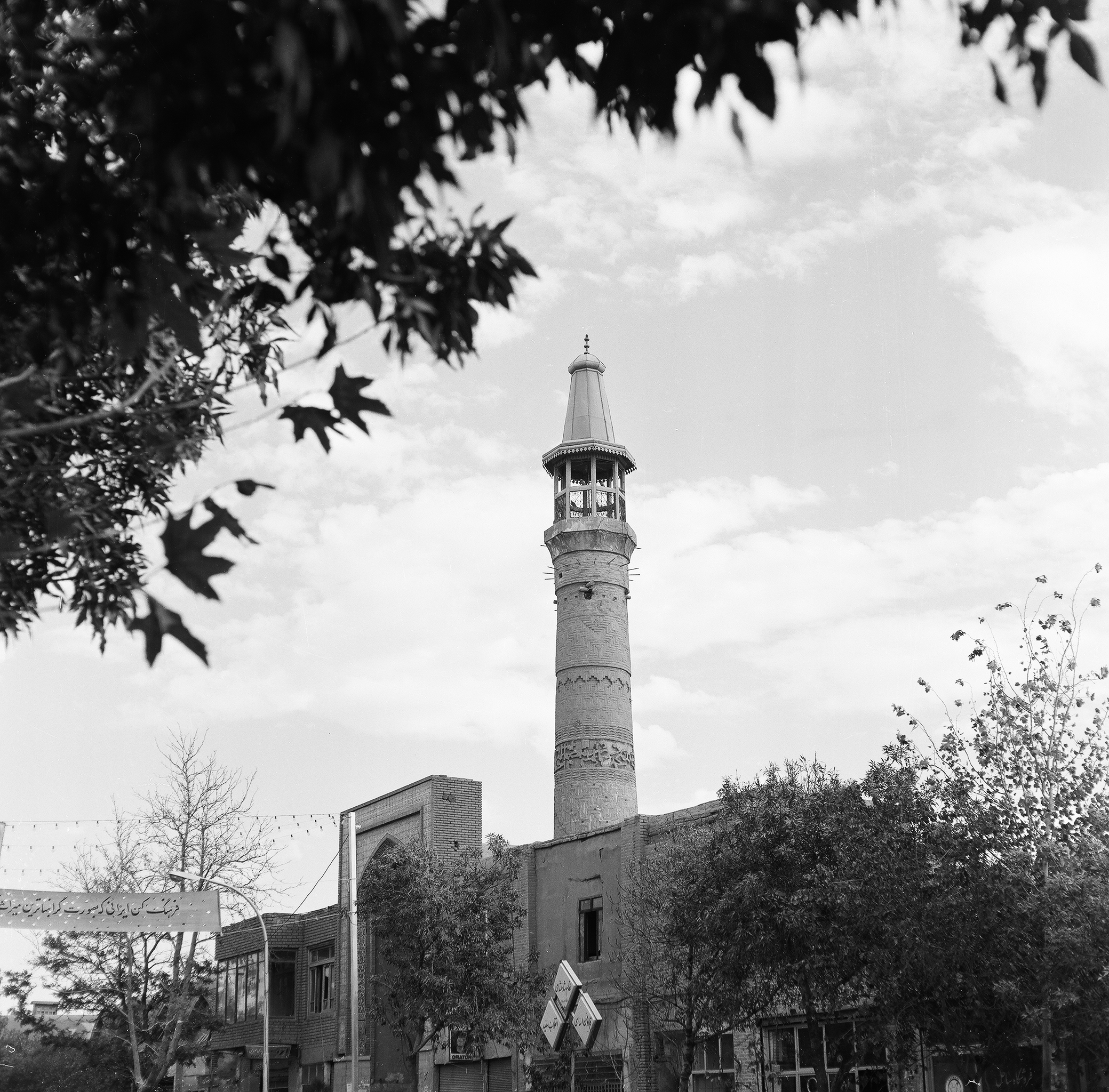 Pamenar Mosque in Sabzevar (Pre 1979)